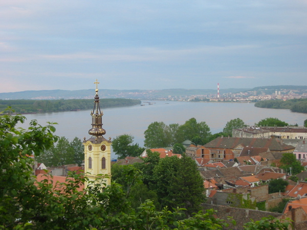 Copied from original file: Зображення:Danube Belgrad.jpg uploaded by Користувач:Shao